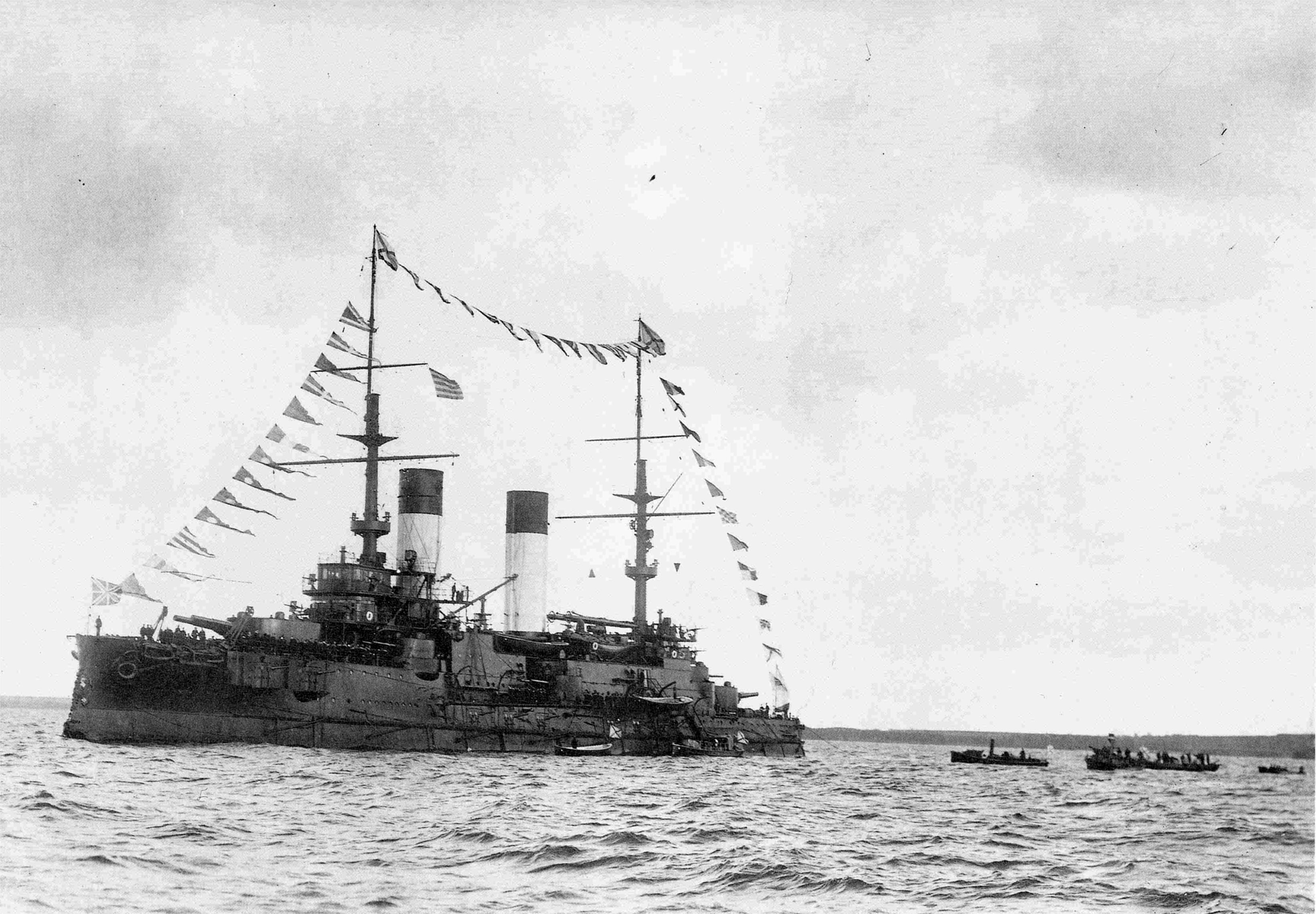 Imeprial Russian battleship Knyaz' Suvorov in Reval, 26 September 1904.